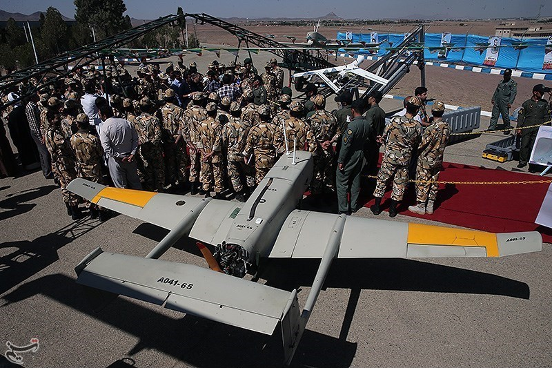 Mohajer-4 UAV at an Iranian arms expo.